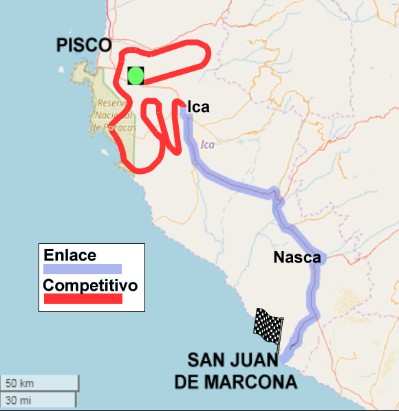 Dakar Rally 2018. Mapa de Etapa 3. Pisco-San Juan de Marcona.